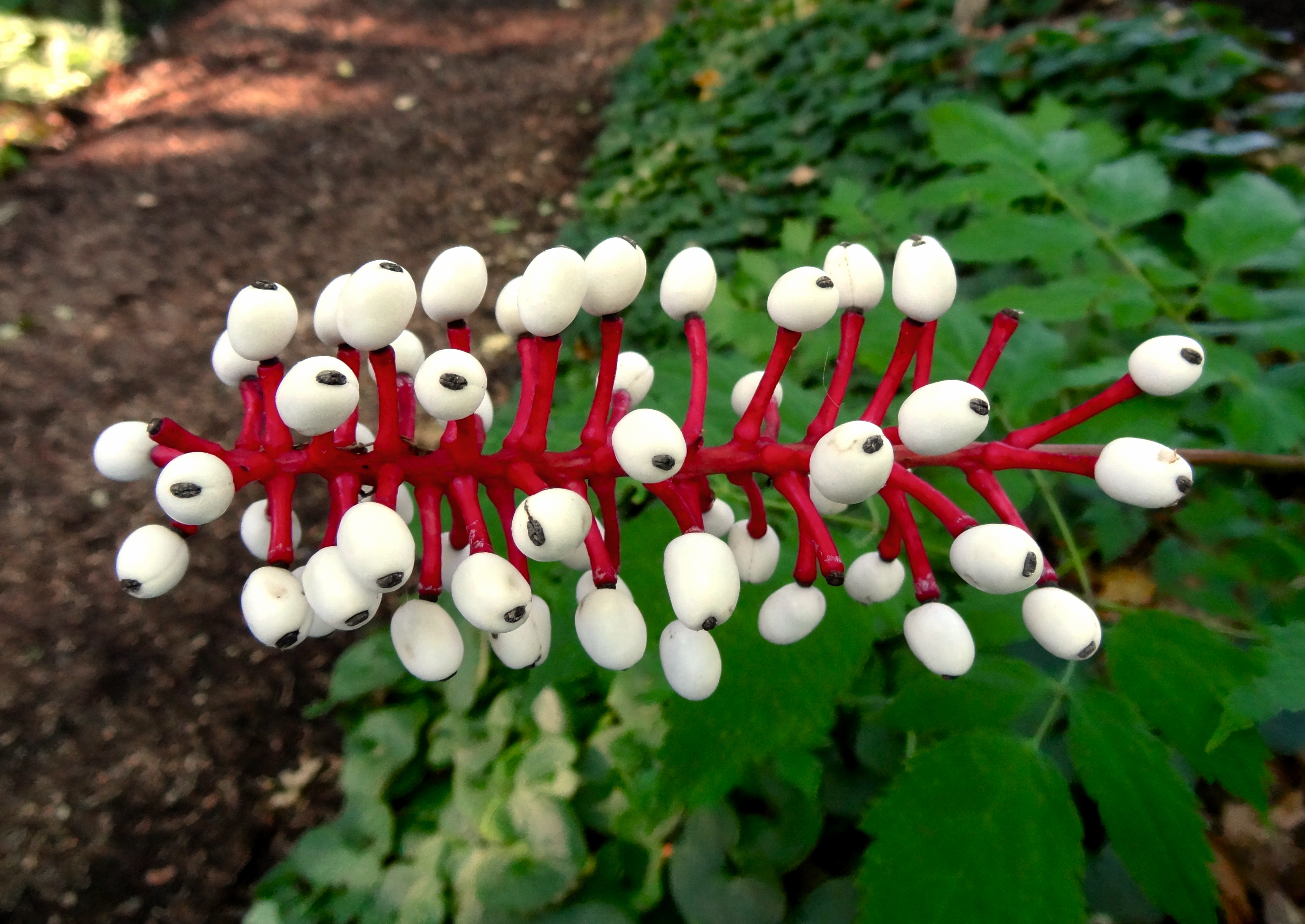 Doll's Eyes, Mount Auburn Cemetery, Cambridge, Massachusetts